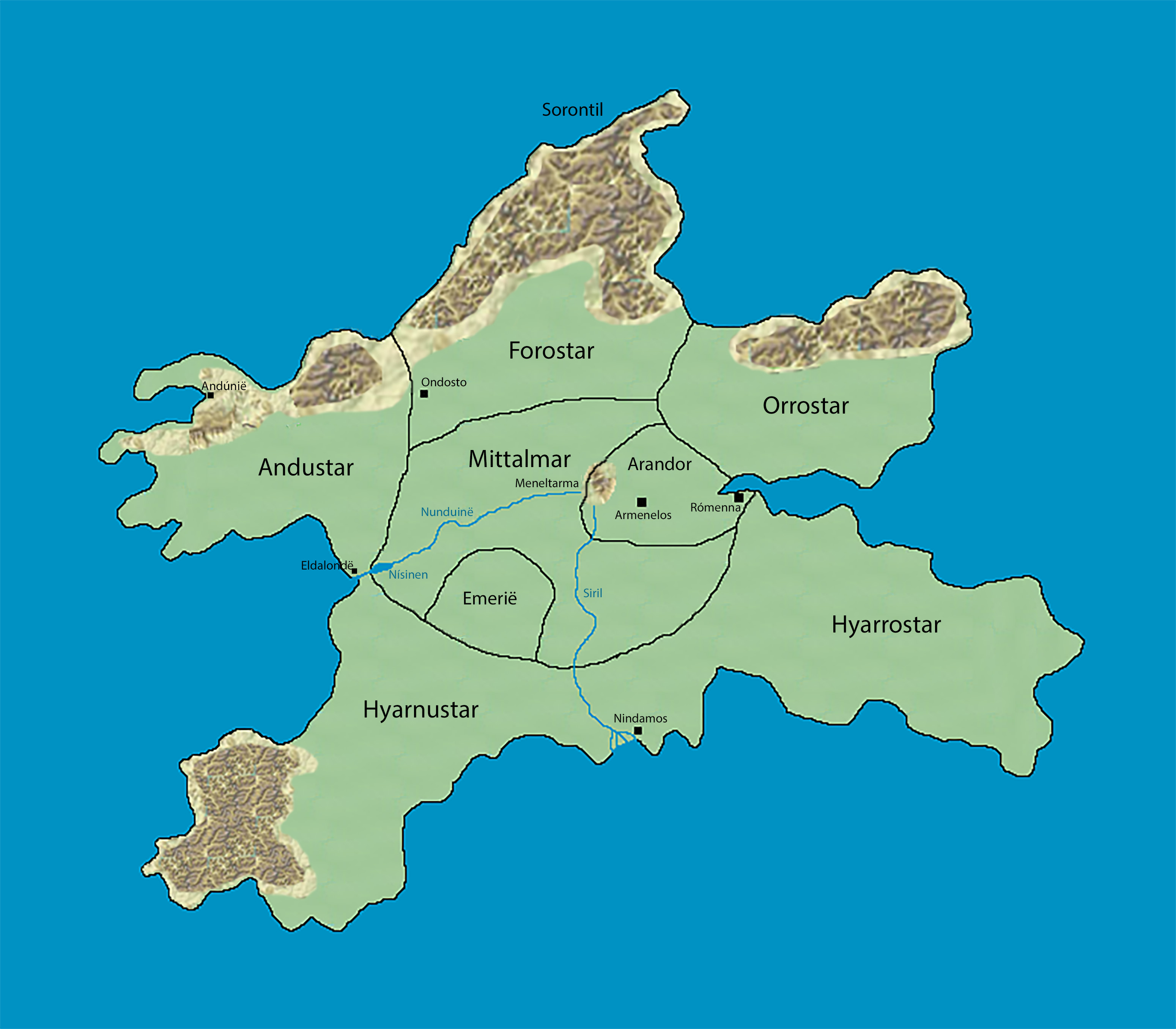 The continent of Numenor in the world of Arda.